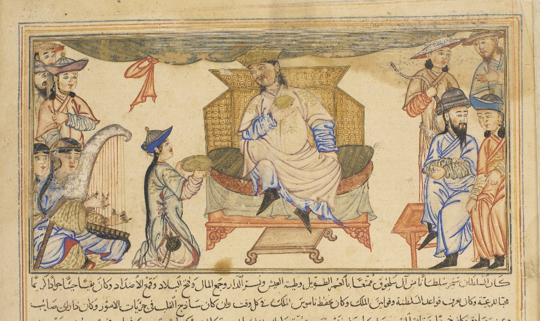 Coronation of Ahmad Sanjar. This painting is from the book Jami' al-Tawarikh (literally "Compendium of Chronicles" but often referred to as The Universal History or History of the World), by Rashid al-Din, published in Tabriz, Persia, 1307 A.D.